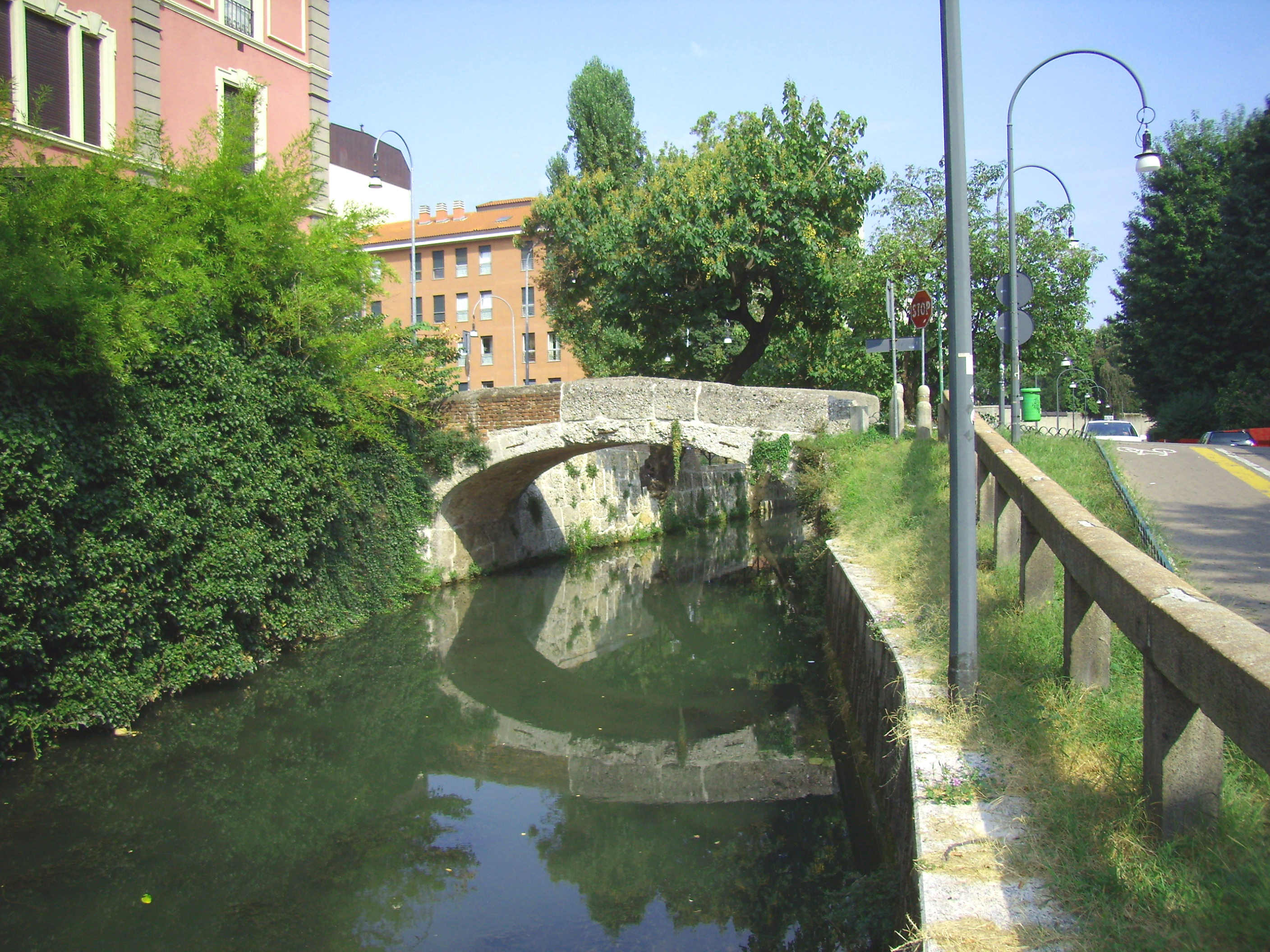 Gorla old bridge in Milan, Italy